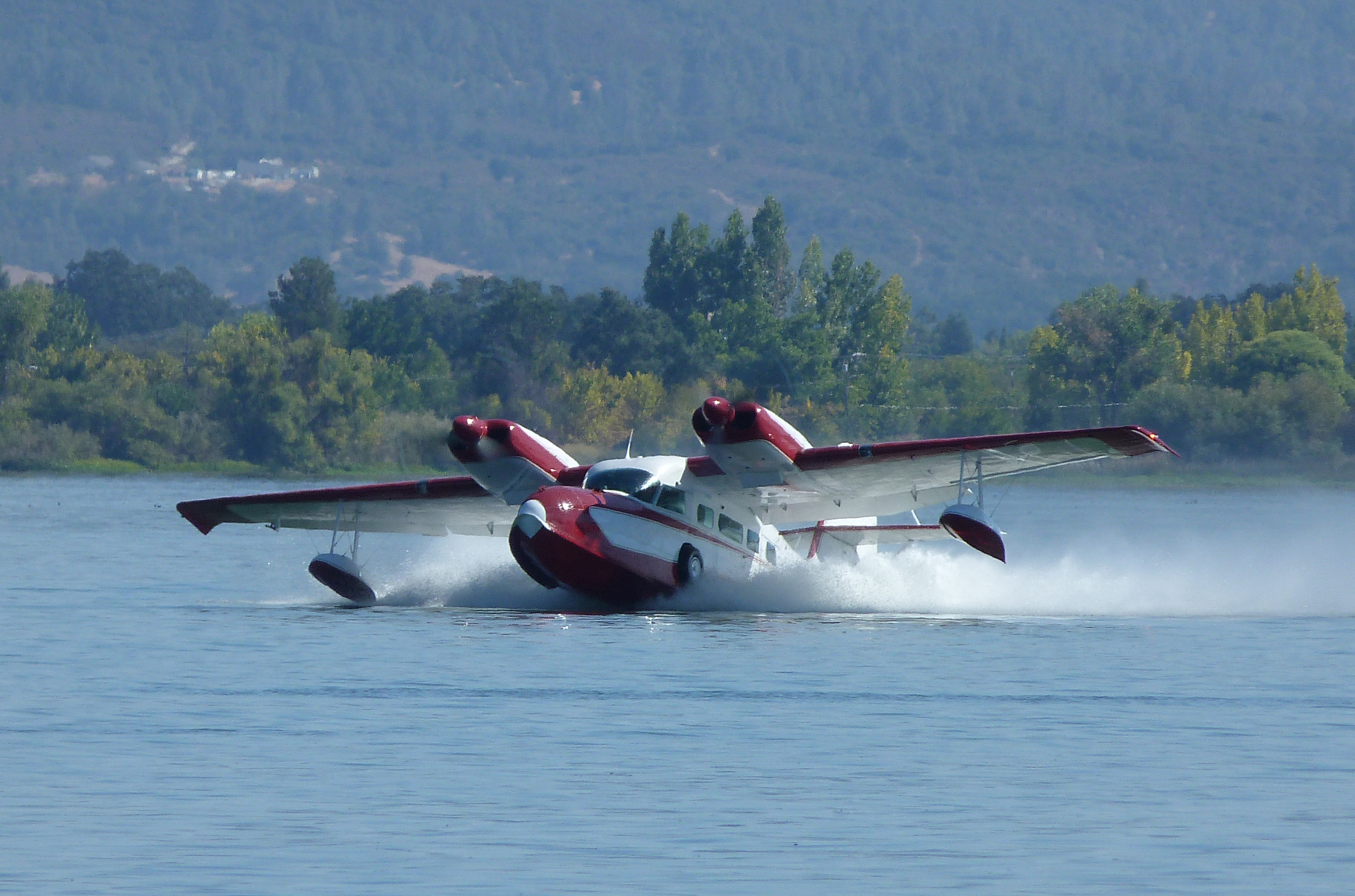 N3TD taking off on Clear Lake, California, during the annual Splash In on September 29, 2012.